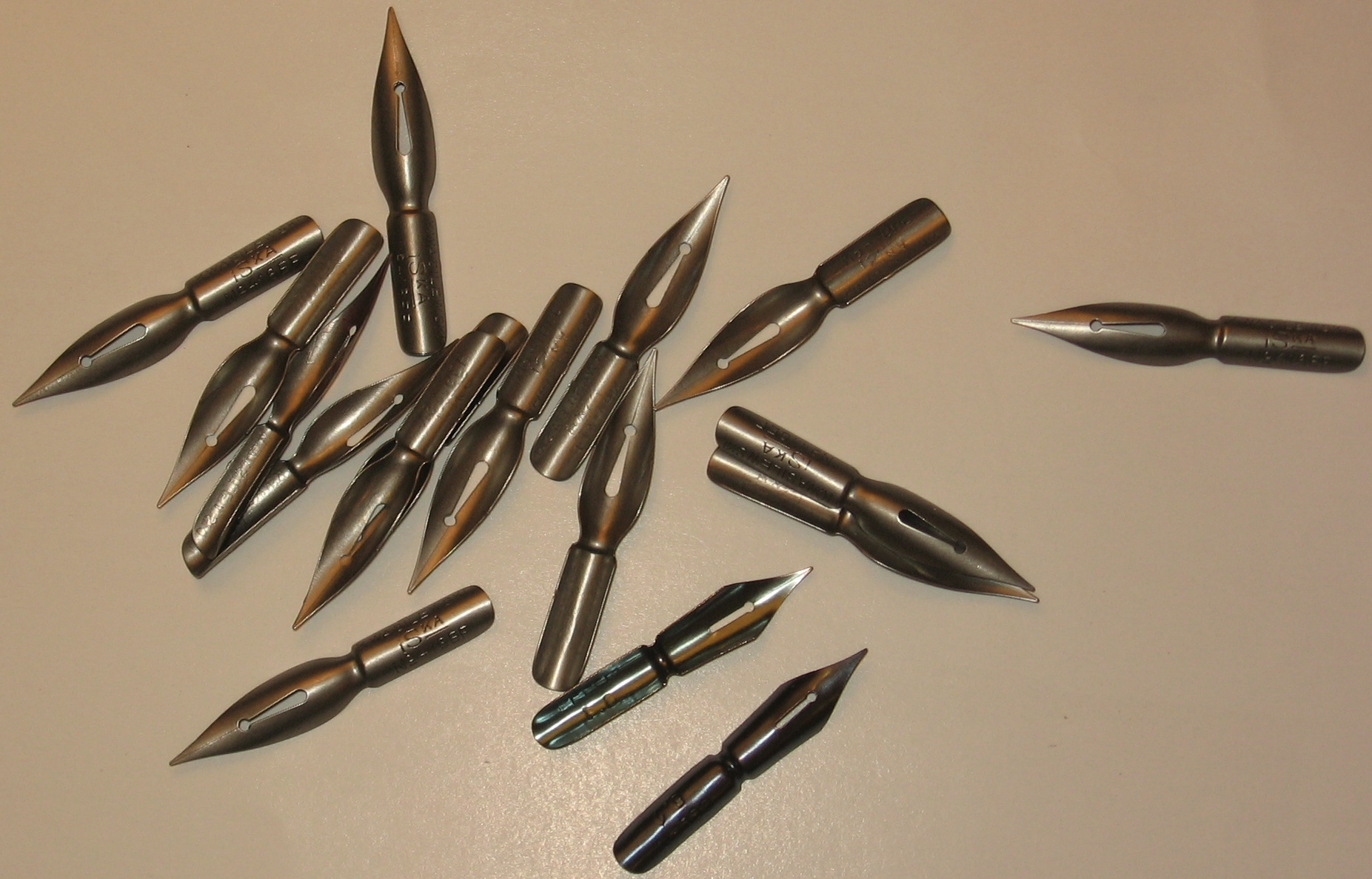 steel nibs for common penholder